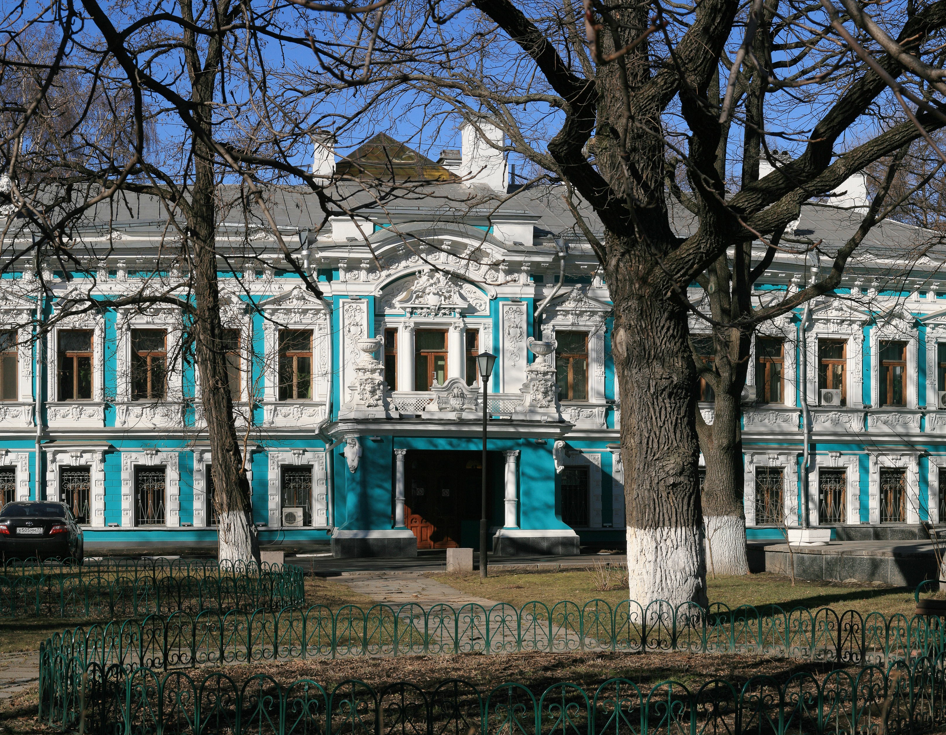 K. P. Bakhrushin Mansion, Novokuznetskaya Street 27, Moscow, 1830-1840